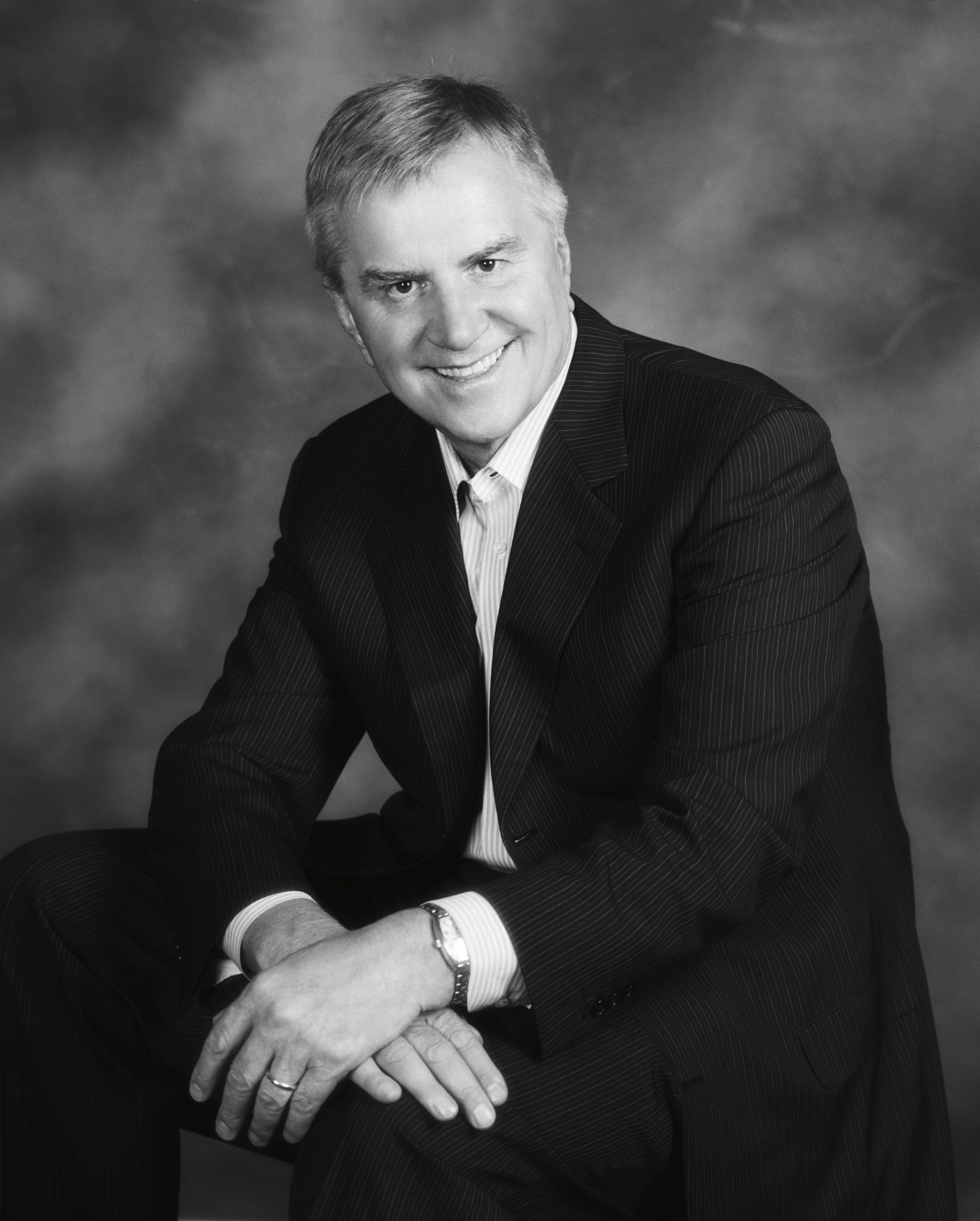 Sig Rogich bio picture